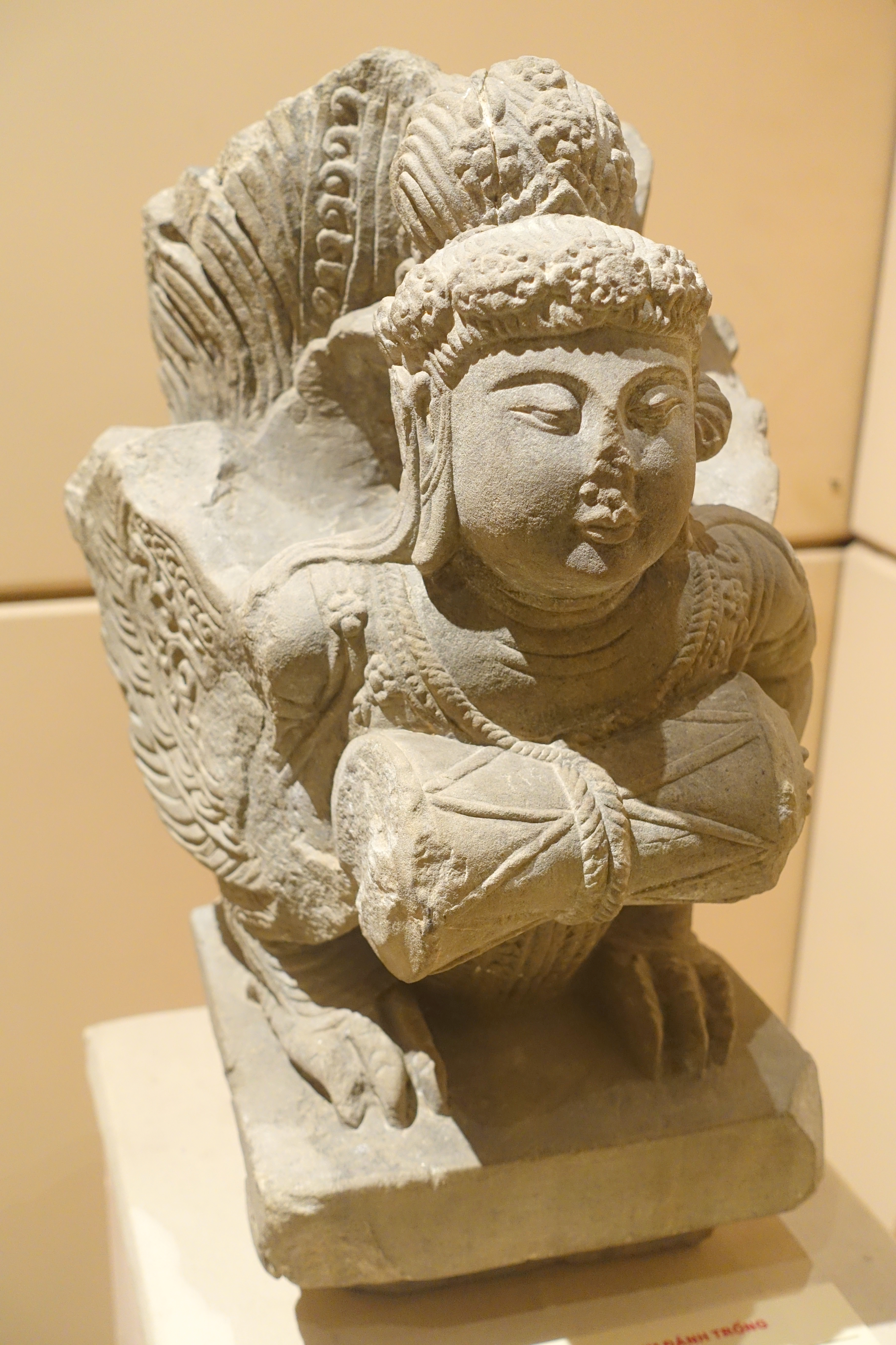 Exhibit in the National Museum of Vietnamese History, Hanoi, Vietnam. This artwork is old enough so that it is in the public domain.